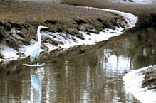 South Slough National Estuarine Research Reserve From: here